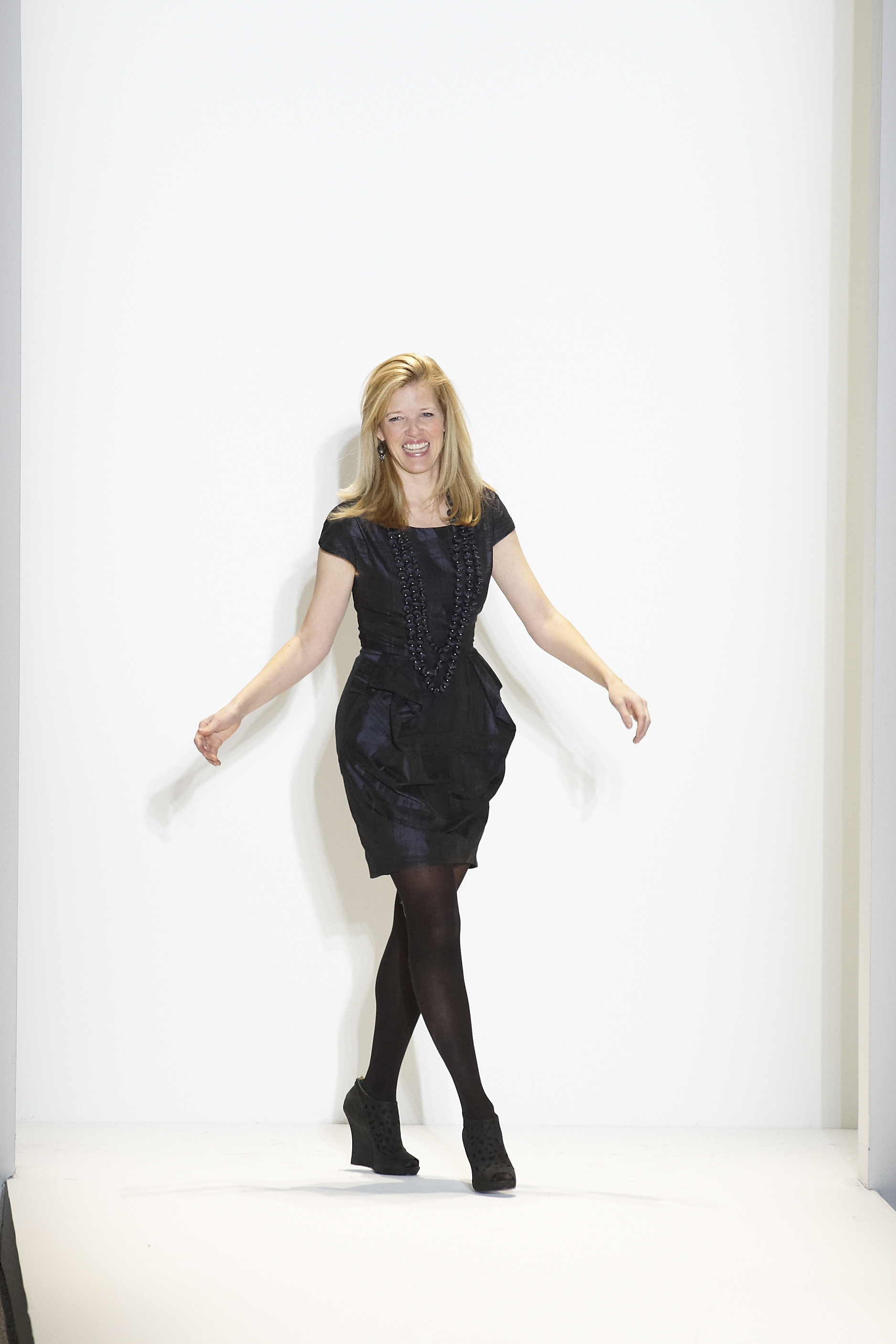 Lela Rose receives applause at the conclusion of her Fall/Winter 2010 show at New York Fashion Week, February 2010.